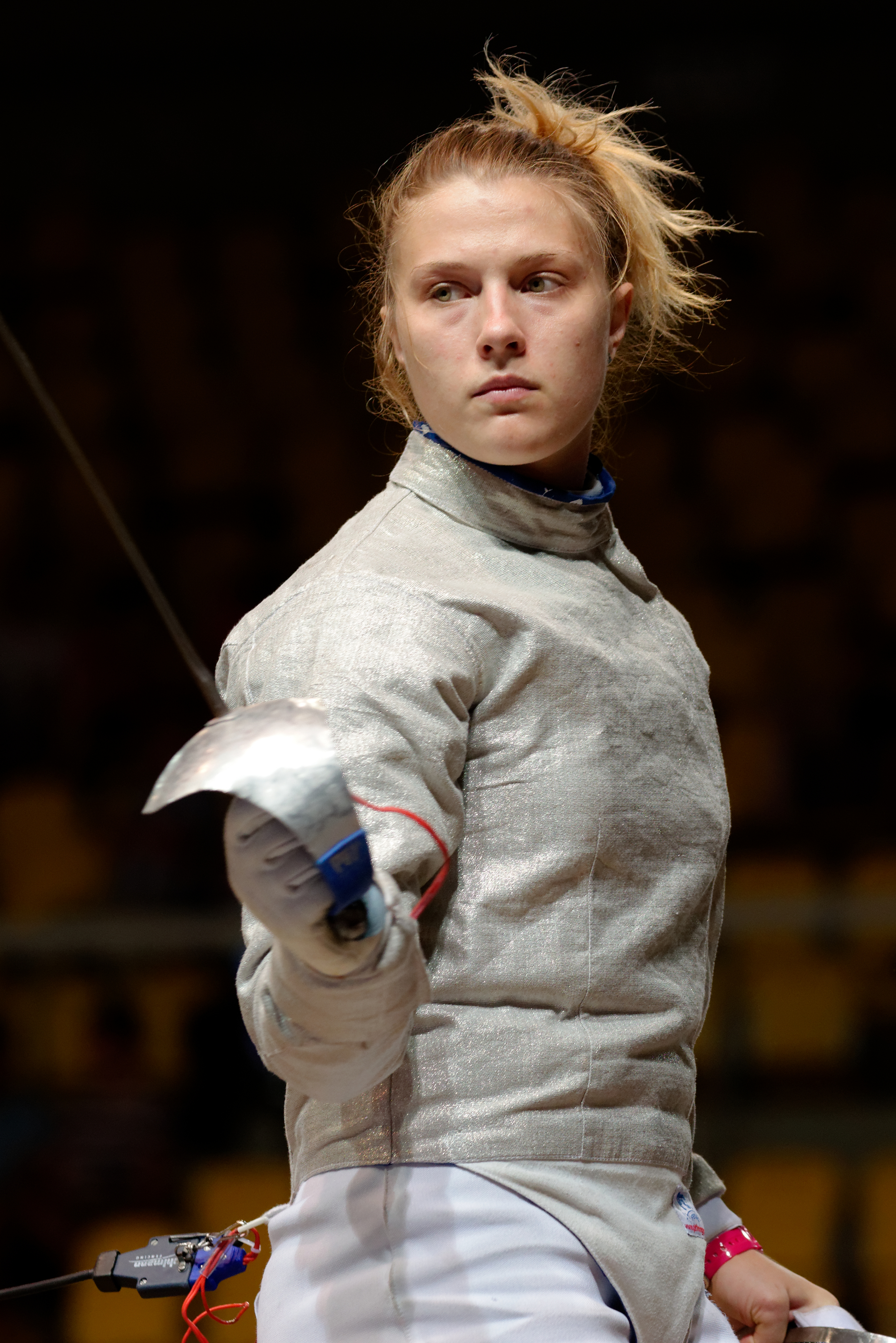 Olha Kharlan of Ukraine during their match for the 3rd place against Hungary in the women's team sabre event at the European Fencing Championships at Rhénus Sport in Strasbourg on 13 June 2014.